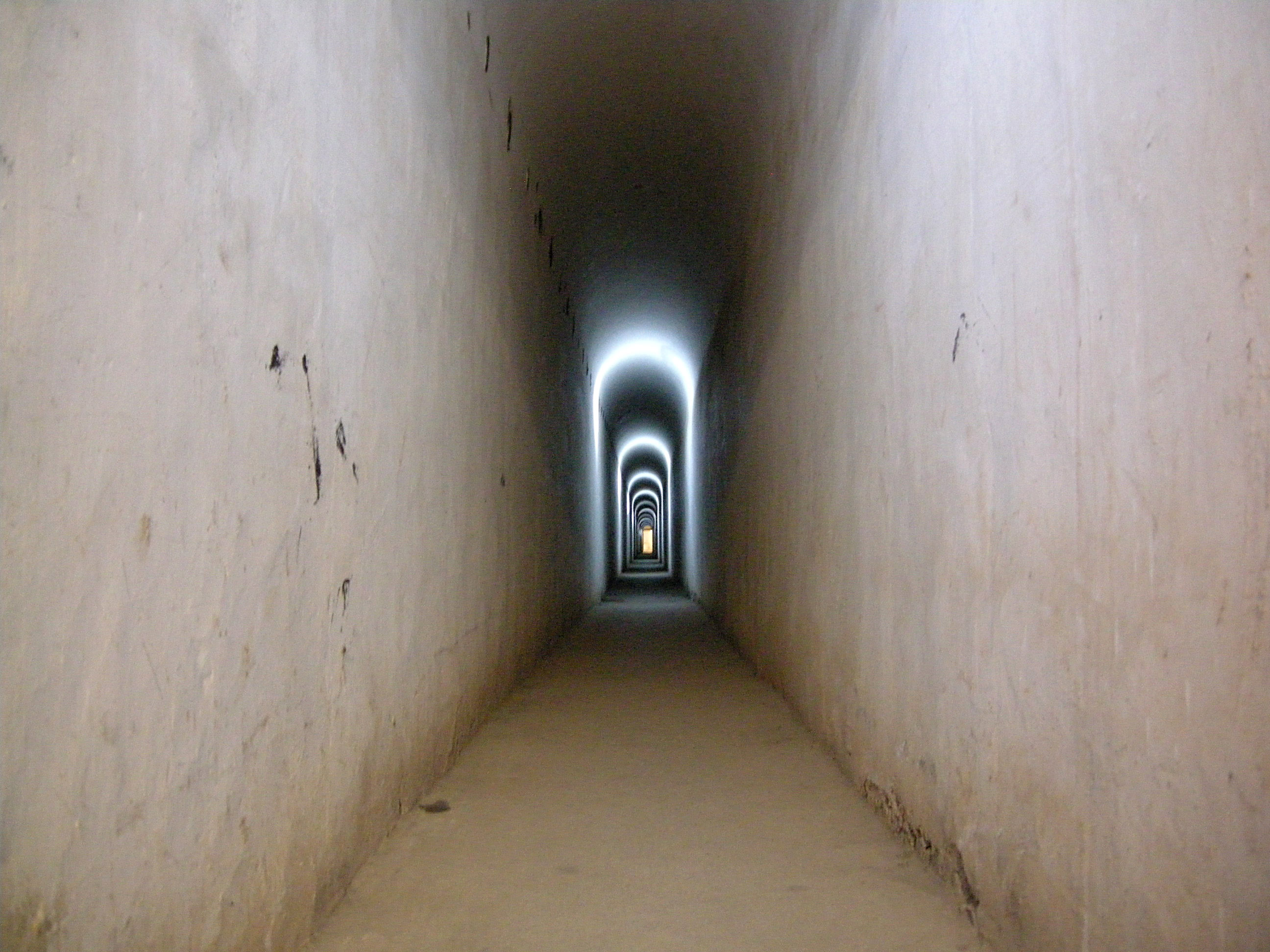 Longest tunnel (about 143 m) in catacombs of Ninth Fort, part of the Kaunas Fortress.